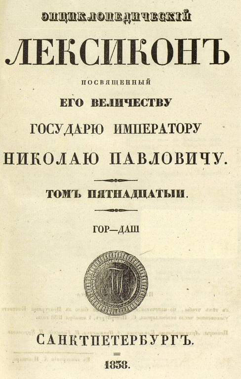 Russian encyclopedia of year 1838